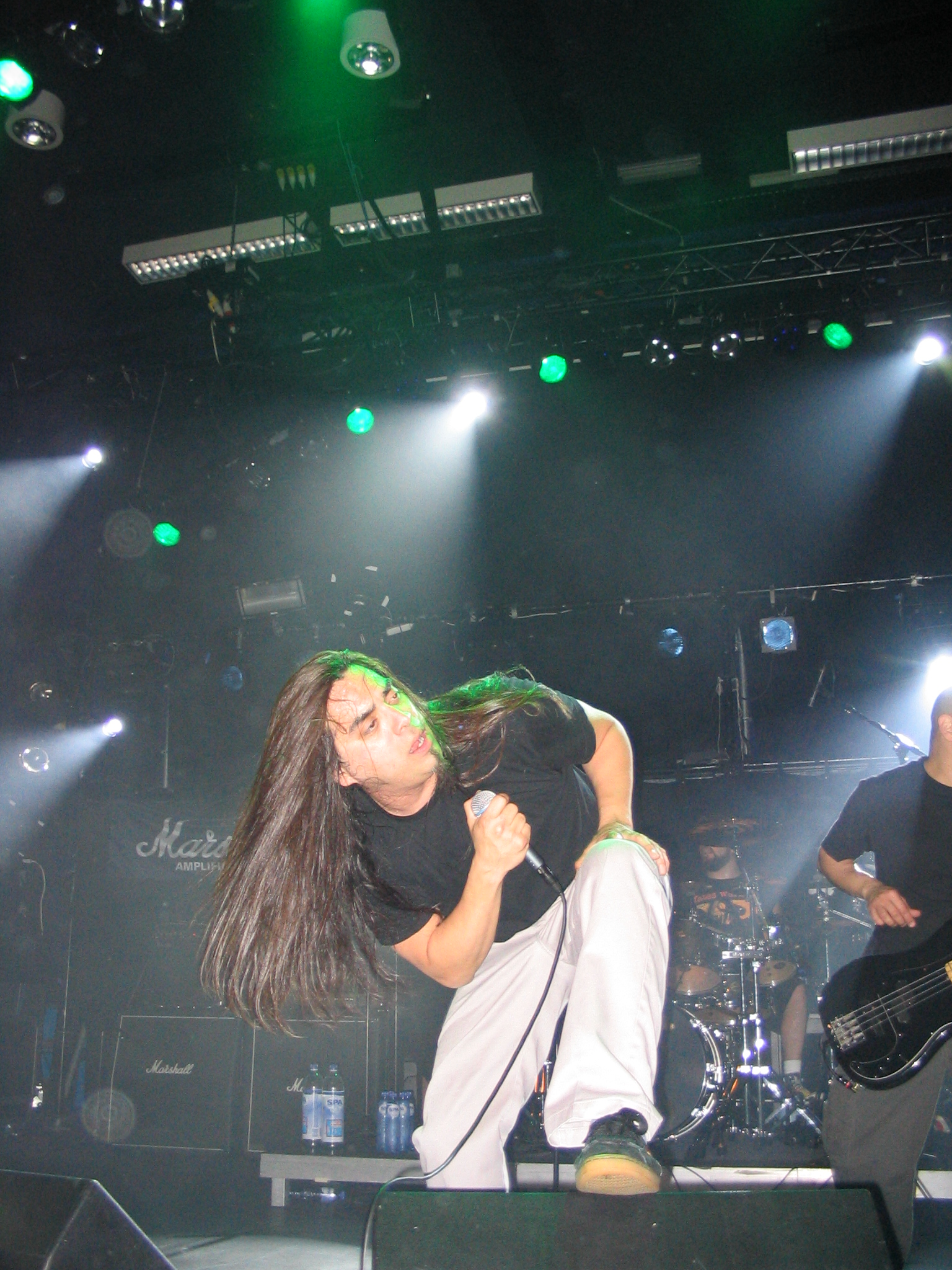 Ray Alder from Fates Warning Image taken by at 2005s Headway Festival